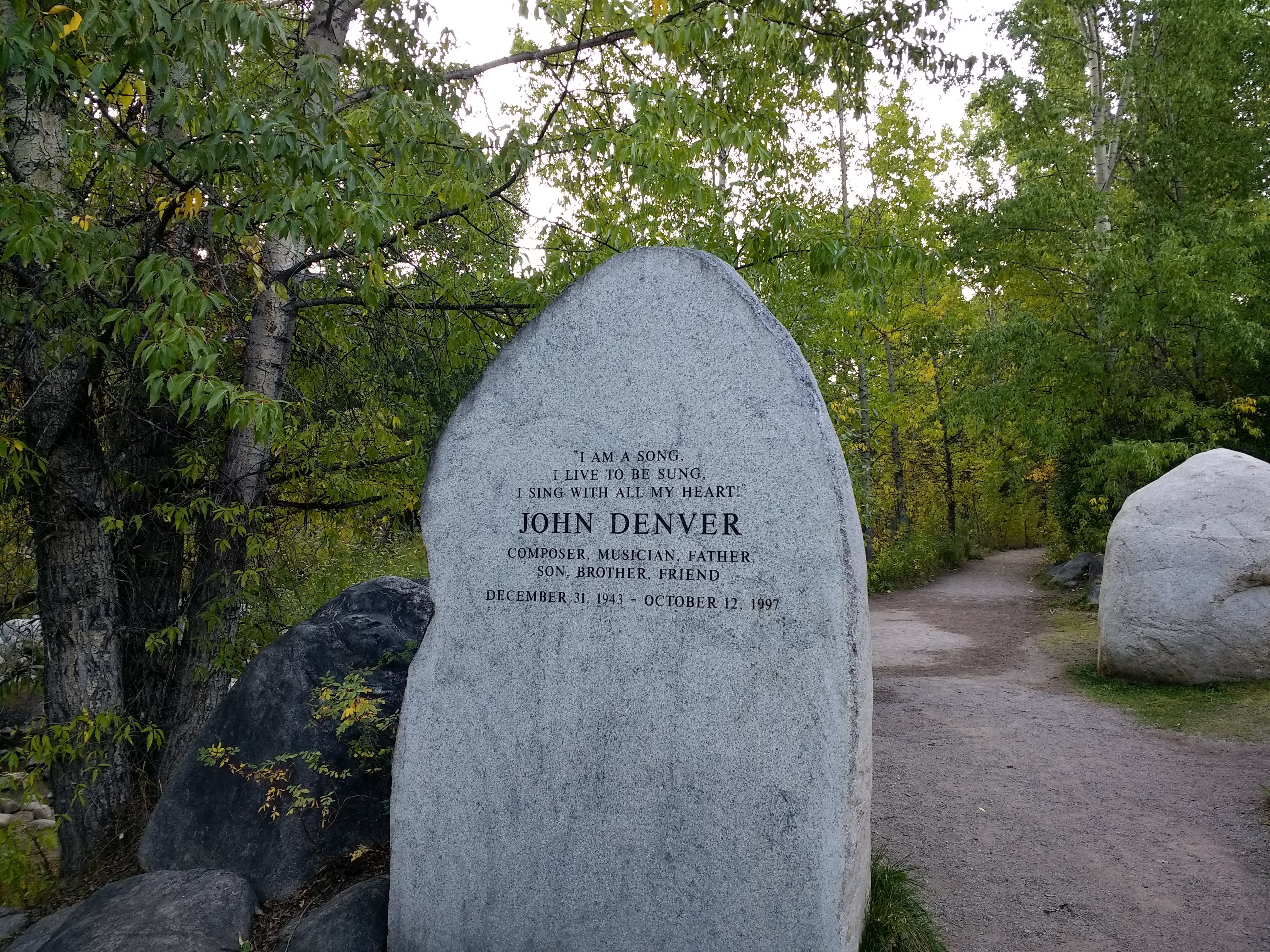 The John Denver Sanctuary in Rio Grande Park, Aspen, Colorado